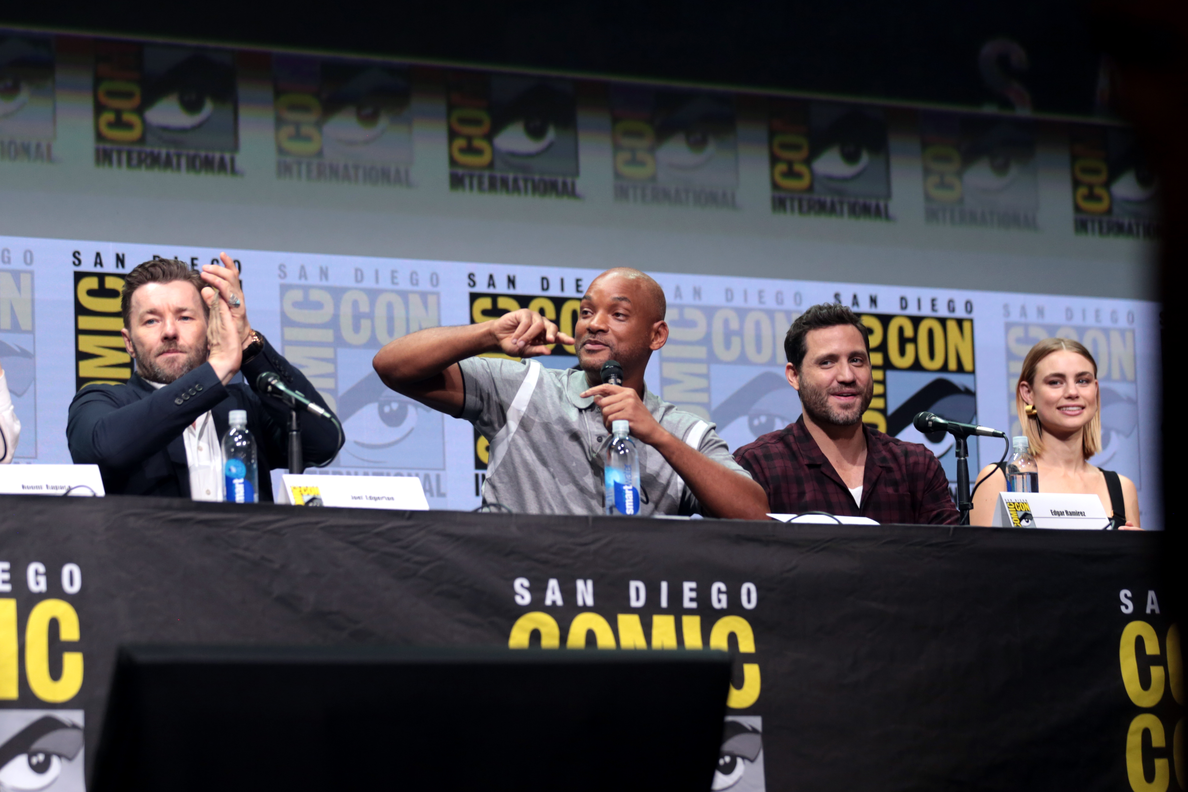 Joel Edgerton, Will Smith, Edgar Ramirez and Lucy Fry speaking at the 2017 San Diego Comic Con International, for "Bright", at the San Diego Convention Center in San Diego, California.